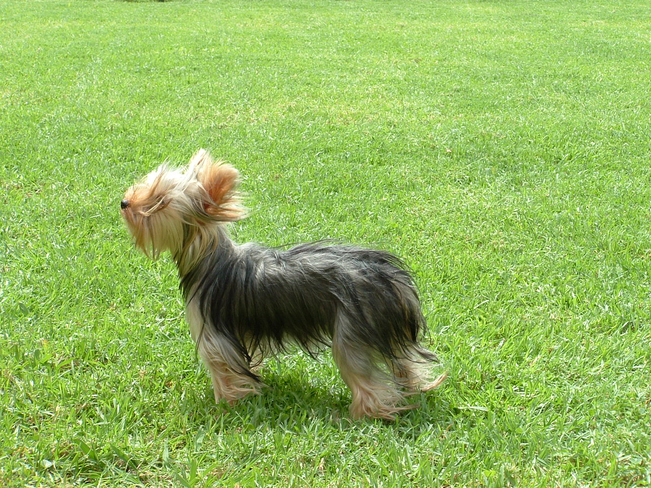 Yorkshire Terrier